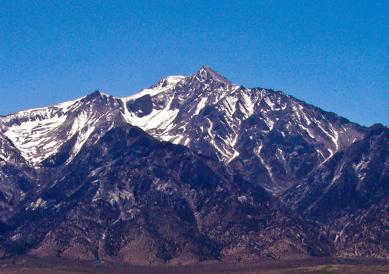 Mount Williamson, Eastern Sierra, Califonia (14,389 ft.) from Manzanar